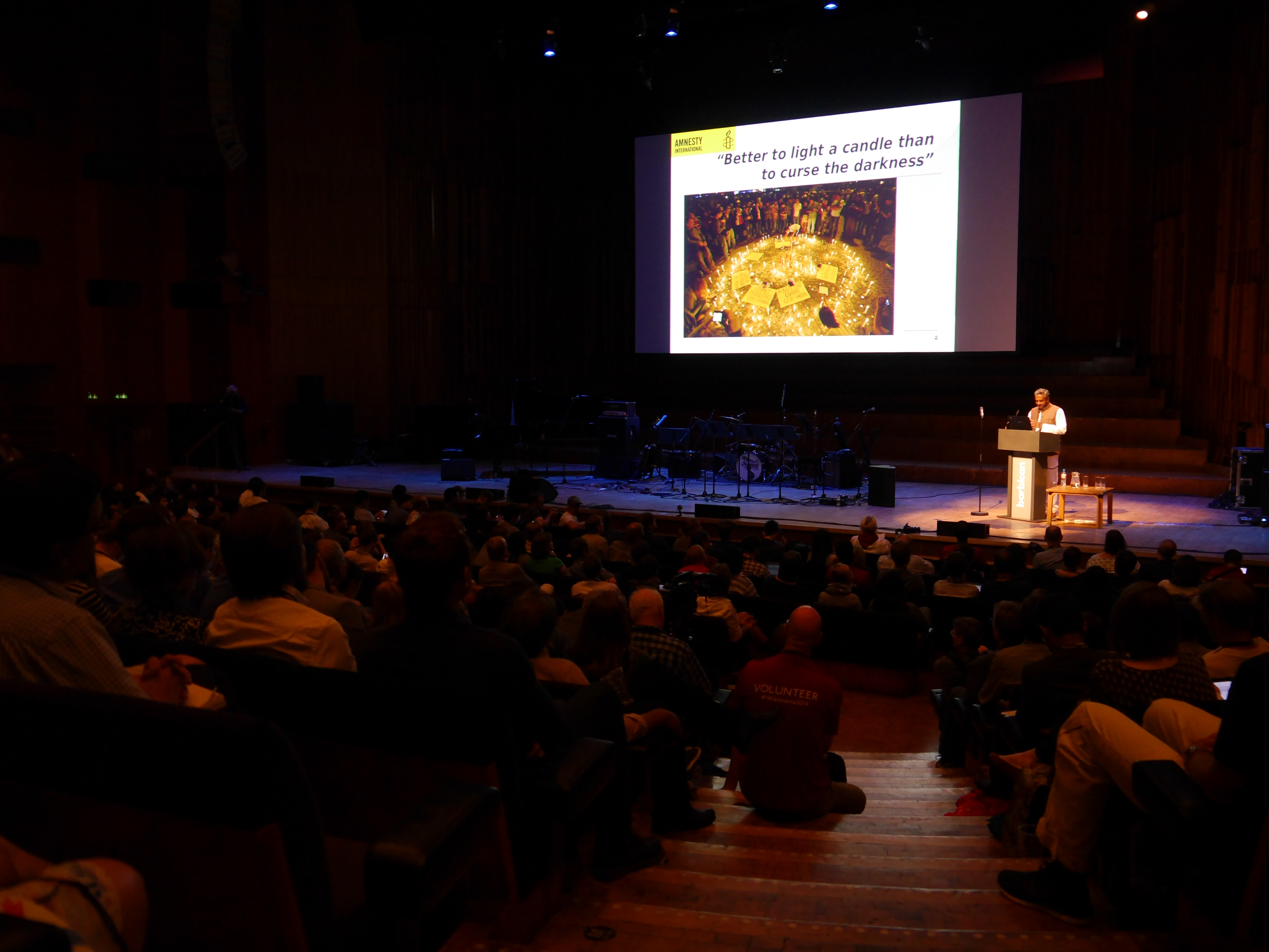 Salil Shetty speaking at the Wikimania 2014 opening ceremony